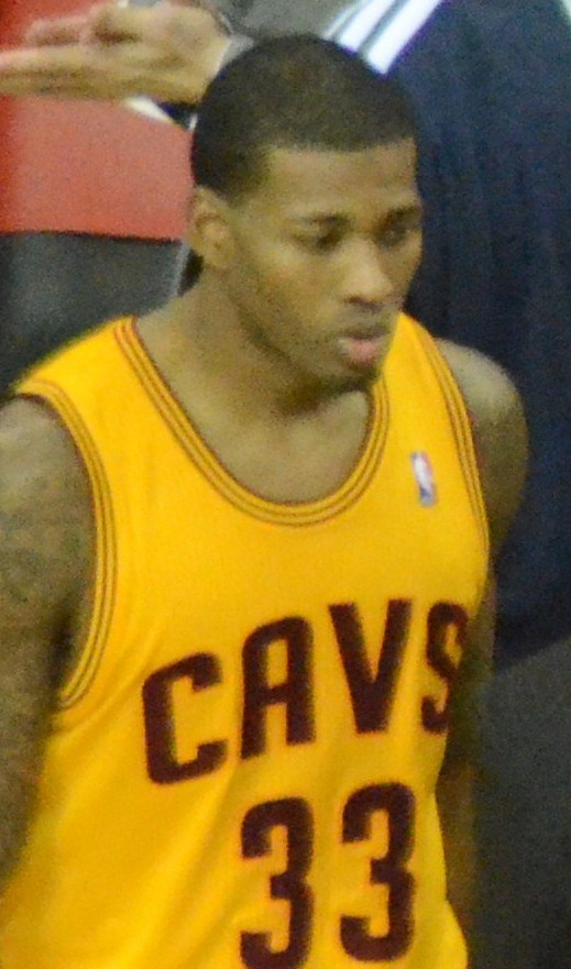 Cleveland Cavaliers players and coaches meet before a game. L-R: Alonzo Gee #33, Anderson Varejao #17, ?, Kyrie Irving #2